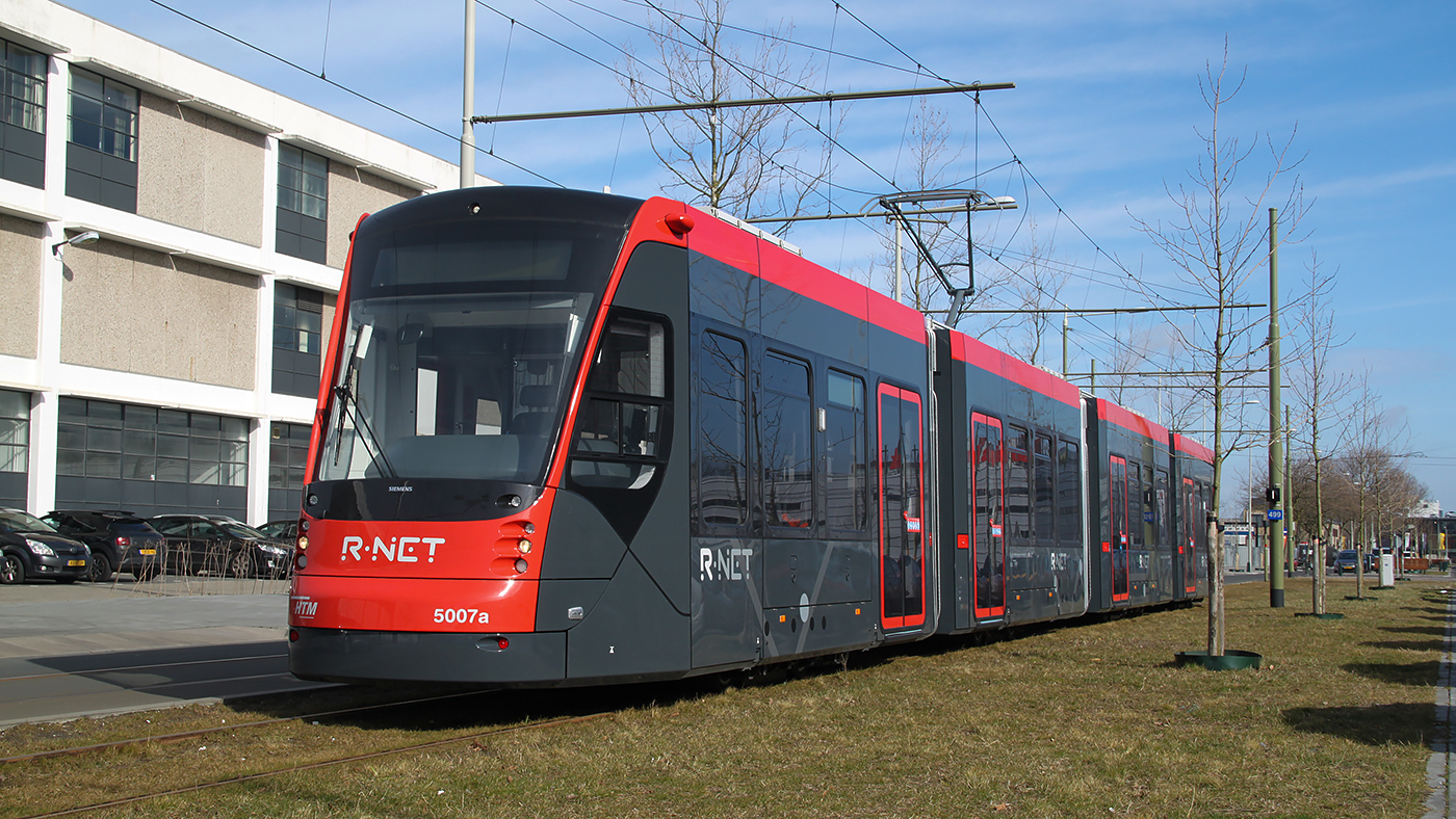 HTM Avenio 5007 during a test run at De Werf near the Zichtenburg Depot.